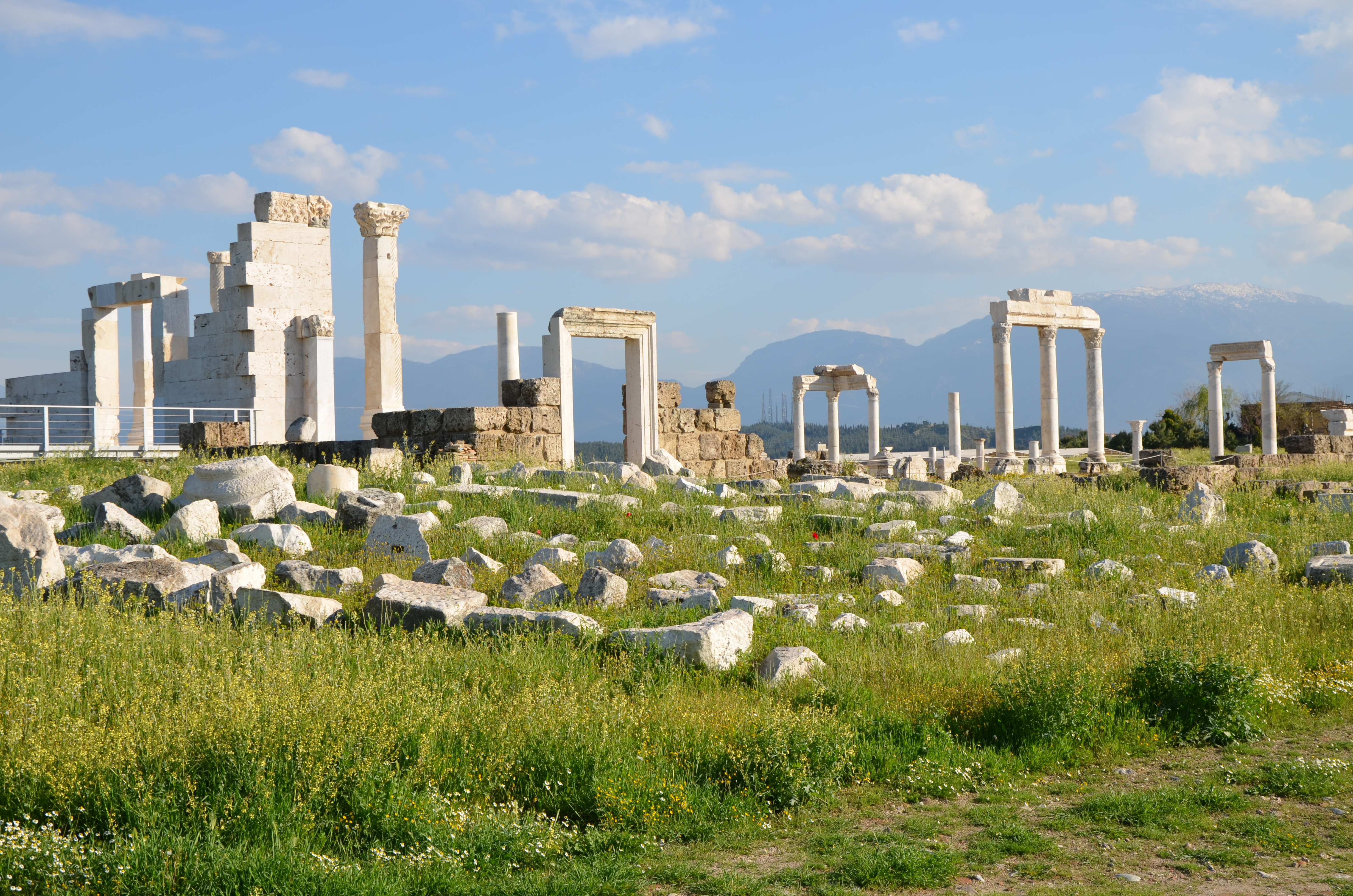 Laodicea on the Lycus, Phrygia, Turkey